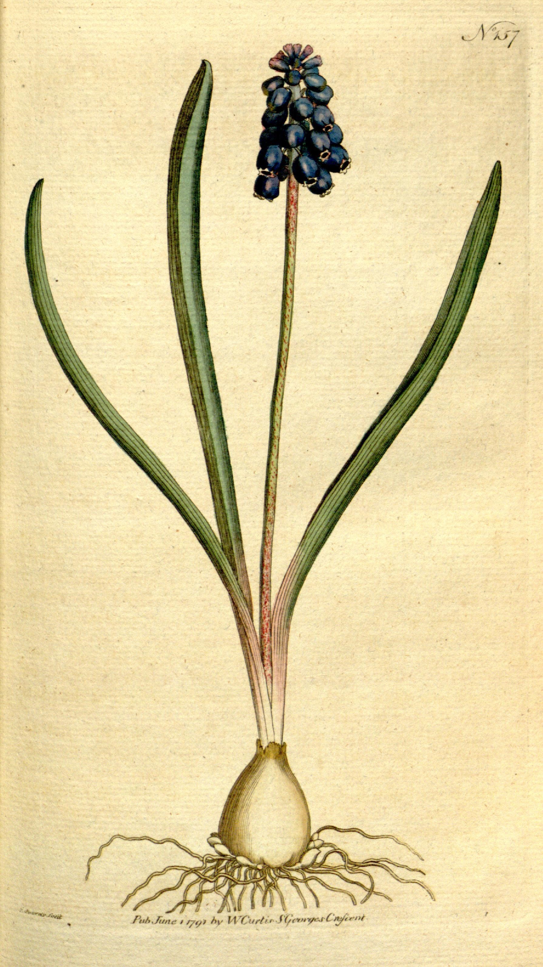 ft,/,. r;,ic / 170 , hy wcurt'* ■■r(;.*»wC'i